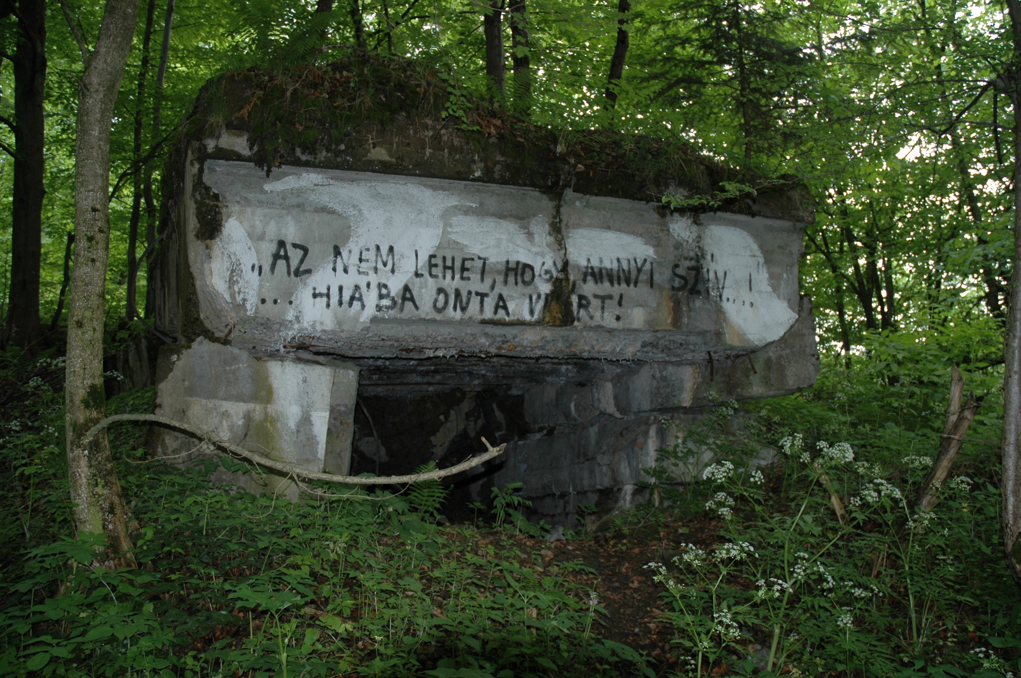 A pillbox of Árpád Line in the Latorice River valley